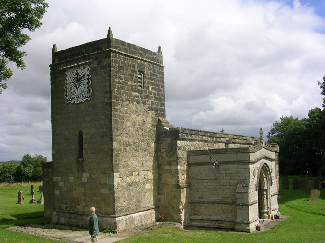 St Mary's Church, Fridaythorpe, East Riding of Yorkshire, England.The exquisitely beautiful little church of St Mary's in Fridaythorpe. Note the very unusual clockface, allegedly copied from one on a French chateau.